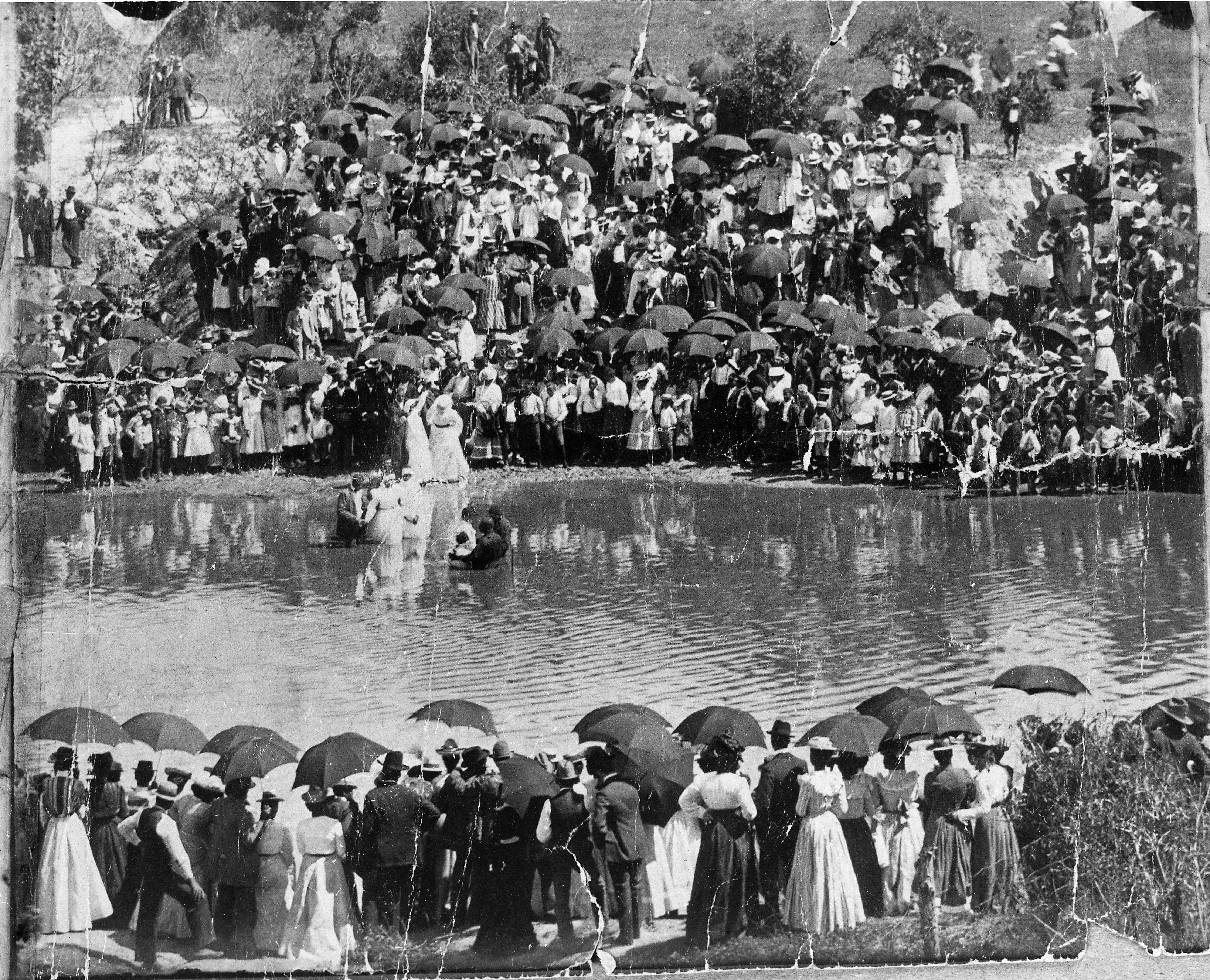 A large group of African-American spectators stands on the banks of Buffalo Bayou to witness a baptism. Many umbrellas are present indicating an effort to provide some shade from the heat of the day.